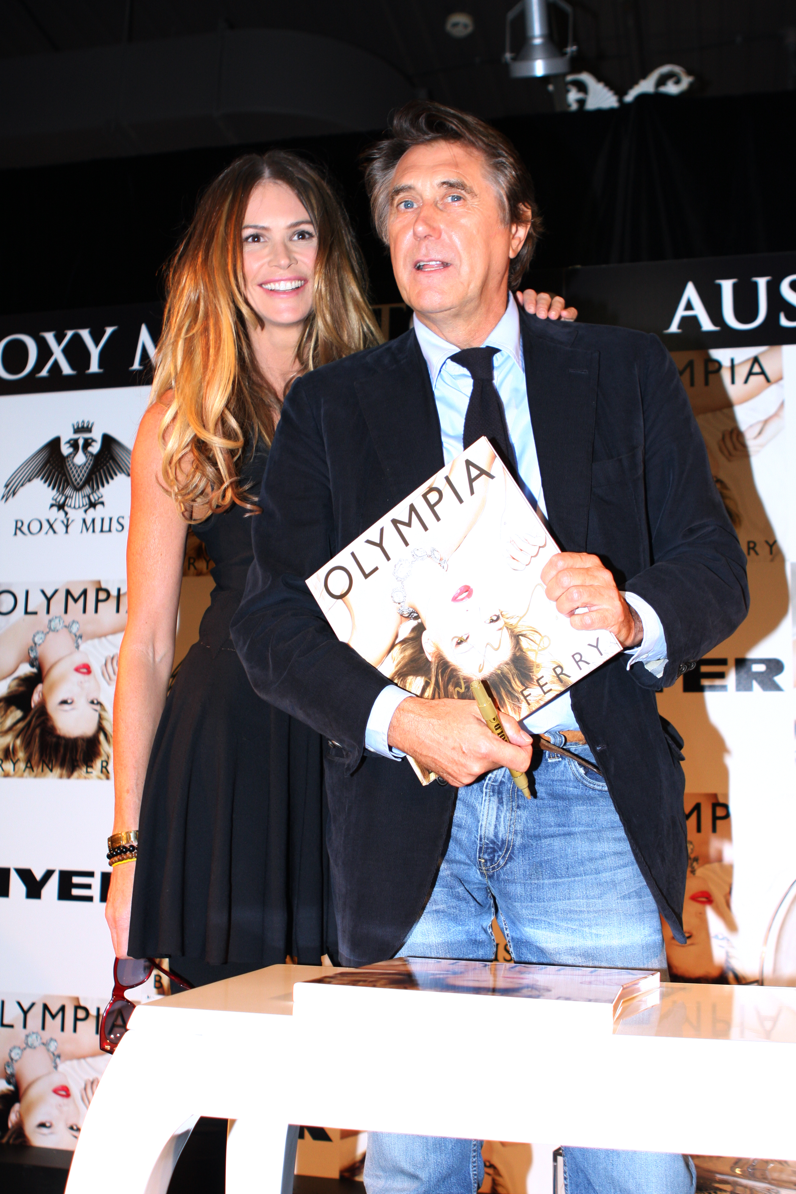 Elle Macpherson and Bryan Ferry in Sydney 2011